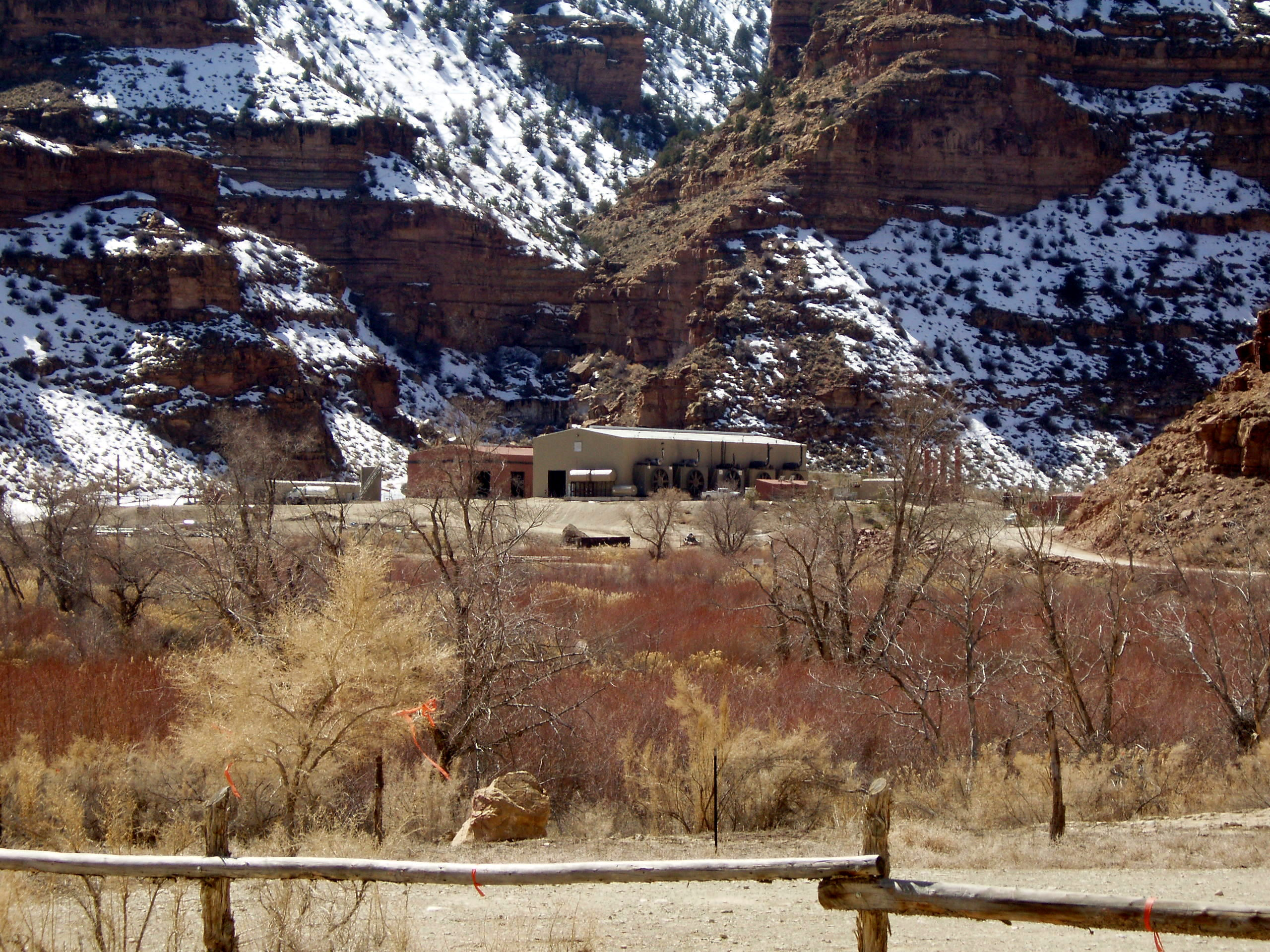 Natural gas compressor station, built by Bill Barrett Corporation on private property at the Dry Canyon junction in Nine Mile Canyon, Utah, United States